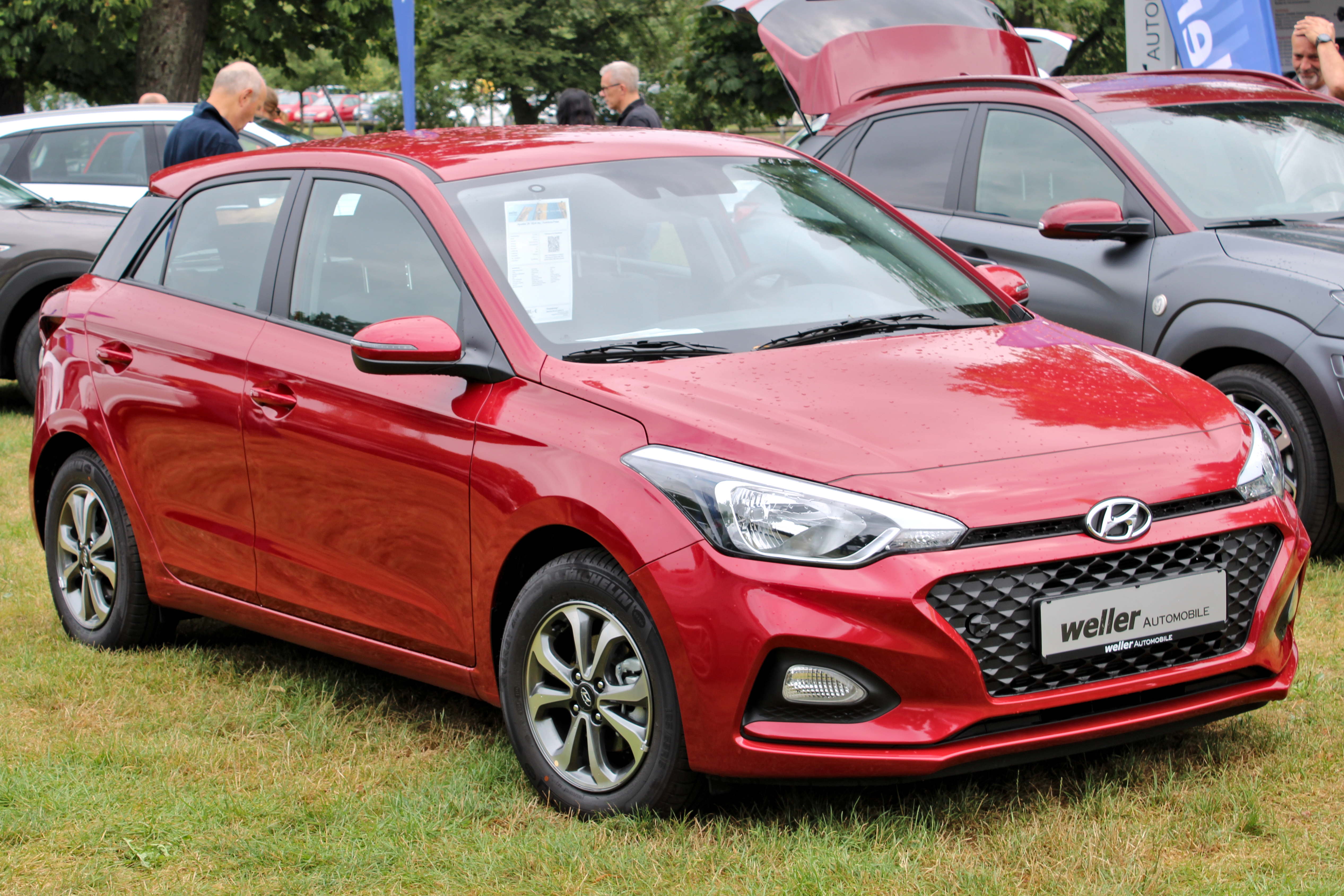 Hyundai i20 at Schloss Monrepos 2019